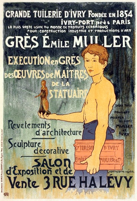 Poster by Alexandre Charpentier (1856-1909) for a stoneware exhibition in Paris in 1897, featuring exhibits from the Émile Muller tilery in Ivry-Port (now Ivry-sur-Seine) near Paris.